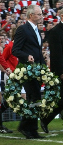 Sven-Göran Eriksson carrying a wreath in 2008 at the Manchester Derby. The match was played at Old Trafford and commemorated the 50th anniversary of the Munich Air Disaster. Eriksson was manager of Manchester City at the time.